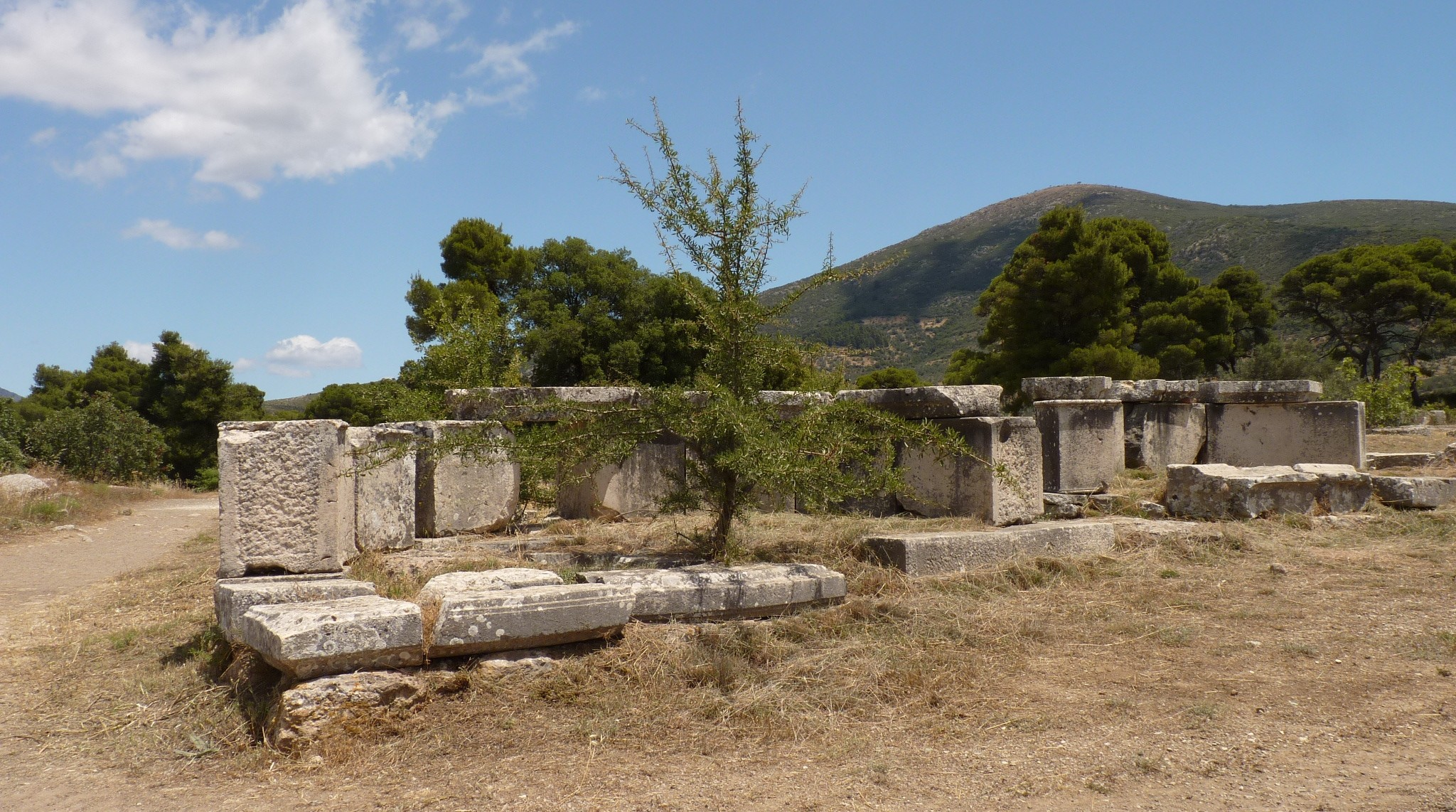 Epidaurus (Greek: Επίδαυρος, Epidavros) was a small city (polis) in ancient Greece, at the Saronic Gulf. You can use the images for free. But a link to - I would be happy :)